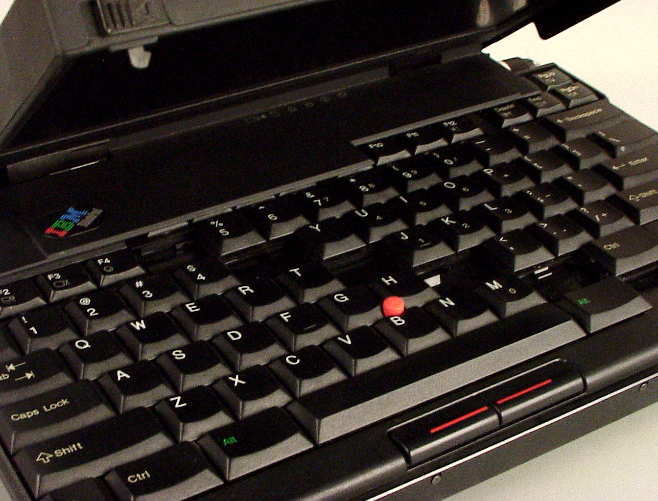 IBM ThinkPad 701 with Butterfly Keyboard. I am releasing image under GFDL licensing